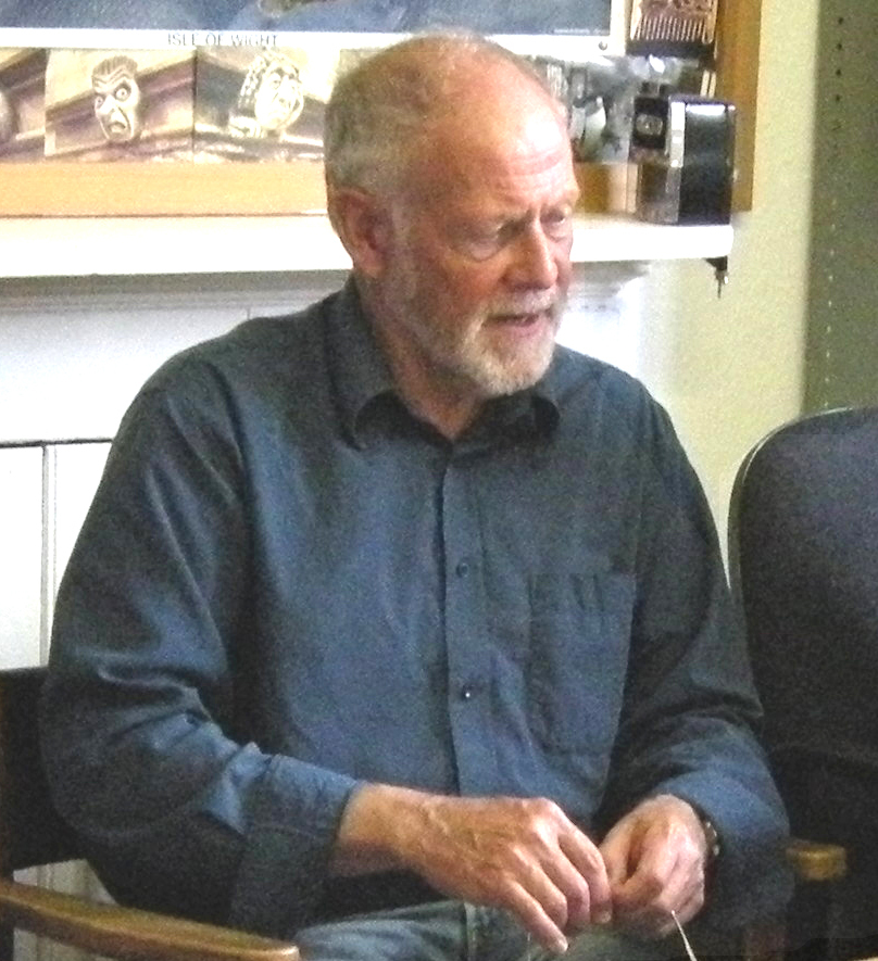 Bob Van Arsdell, Barry Cunliffe and Frank Basford discussing Iron Age finds on the Portable Antiquities Scheme database during a visit to the Isle of Wight Archaeological Centre, August 2008. Barry and Bob visited the Archaeological Centre to tell us about their involvement in the forthcoming Brading Roman Villa excavation. This was added from the site called under the name portableantiquities. See source for details.